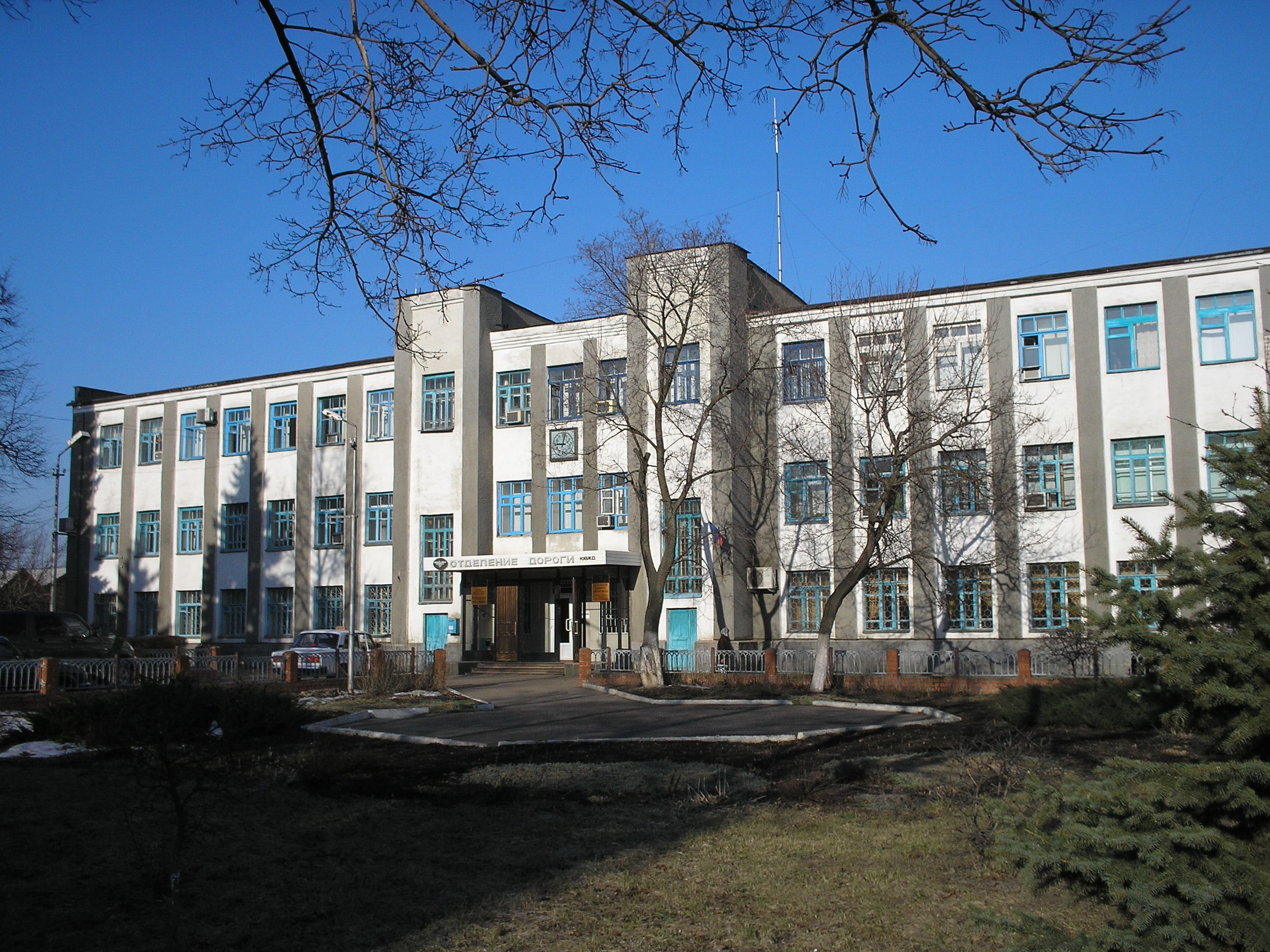 Rtishchevsky branch of the Southeast railway